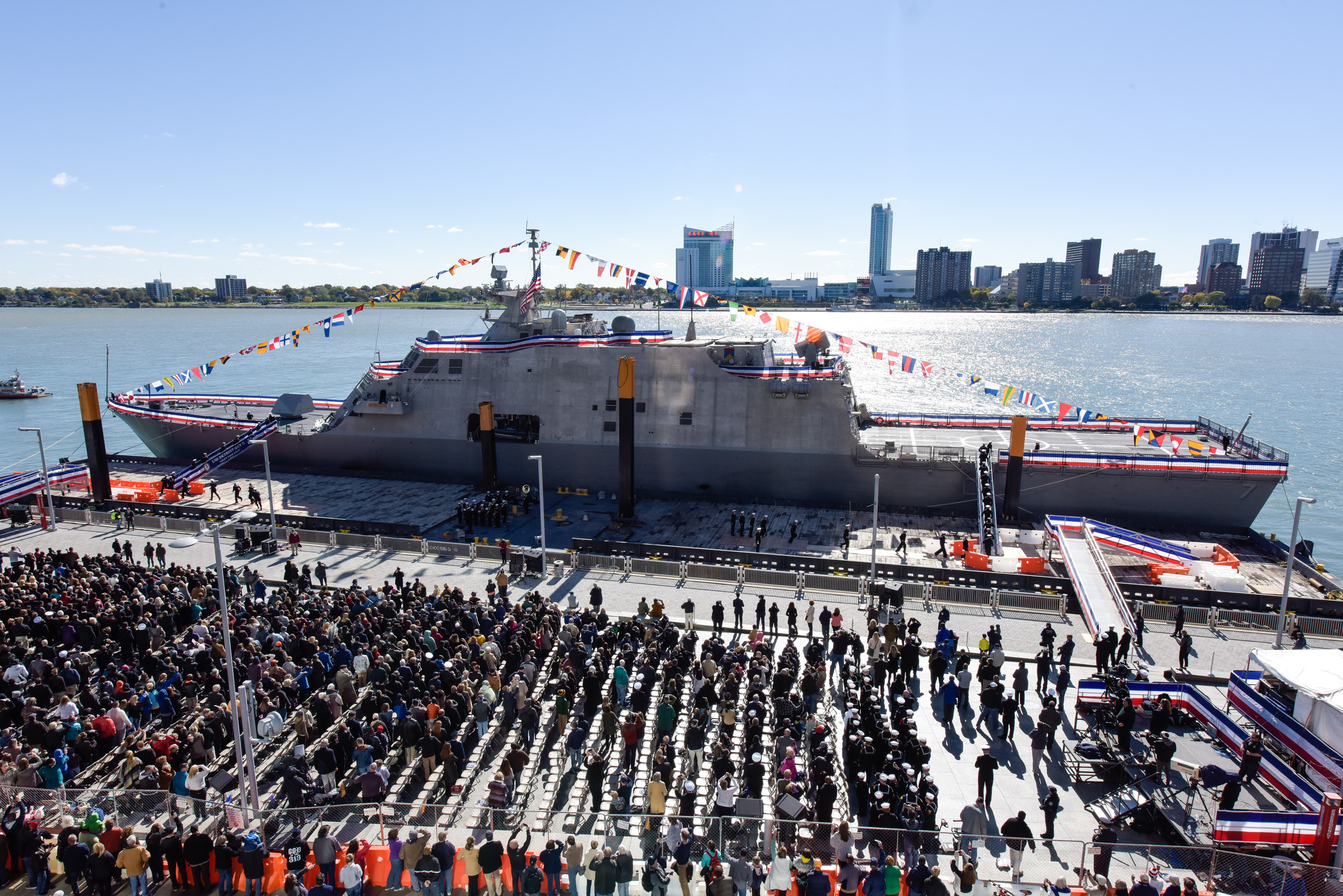 161022-N-N0101-122 DETROIT (Oct. 22, 2016) The crew of the Navy's newest Freedom-variant littoral combat ship, USS Detroit (LCS 7) brings the ship to life during a commissioning ceremony. LCS-7 is the sixth U.S. ship named in honor of city of Detroit. (U.S. Navy photo courtesy of Lockheed Martin/Released)